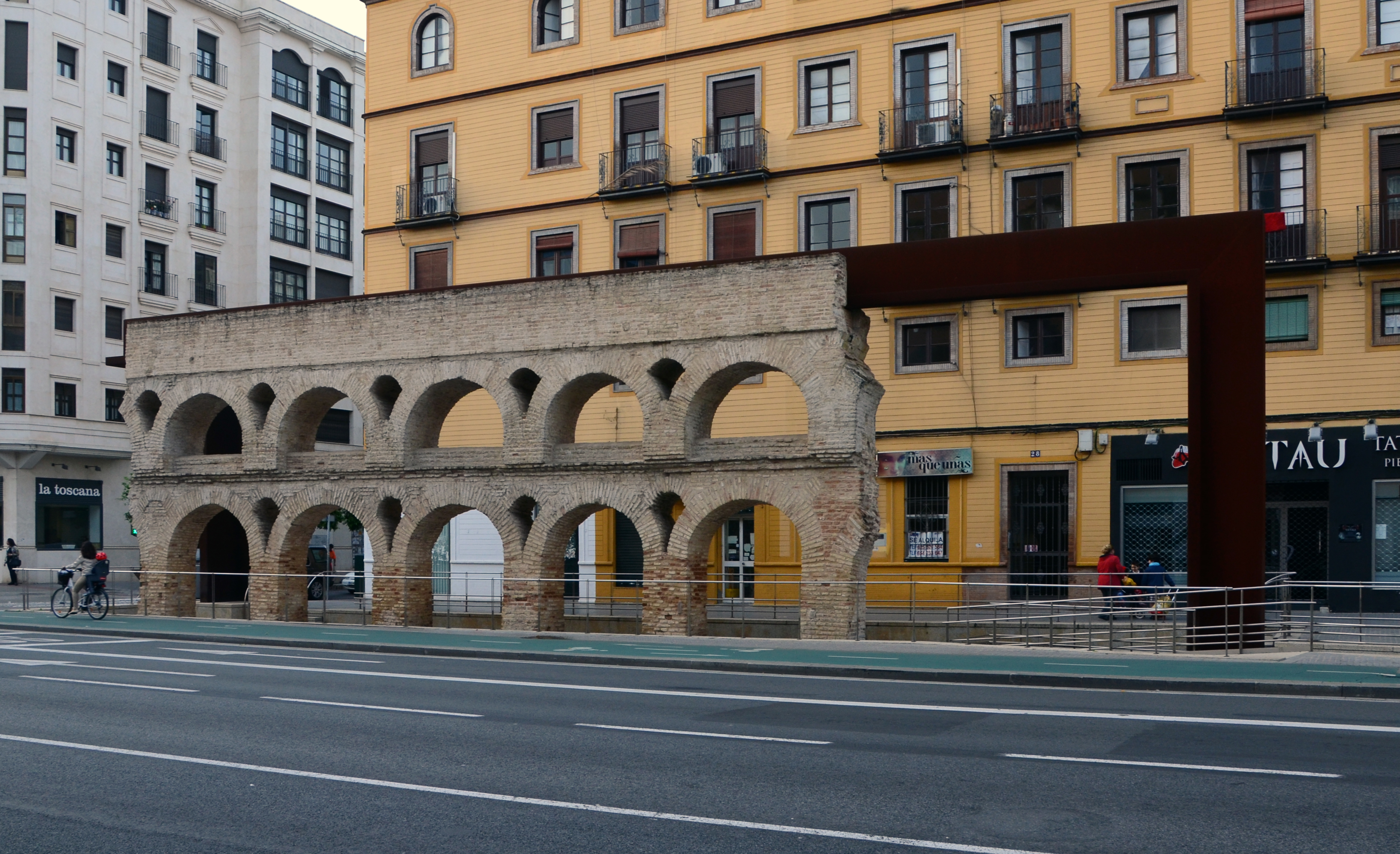 Vestiges of the Caños de Carmona, a Roman aqueduct, in the Luis Montoto street of Seville (Spain)